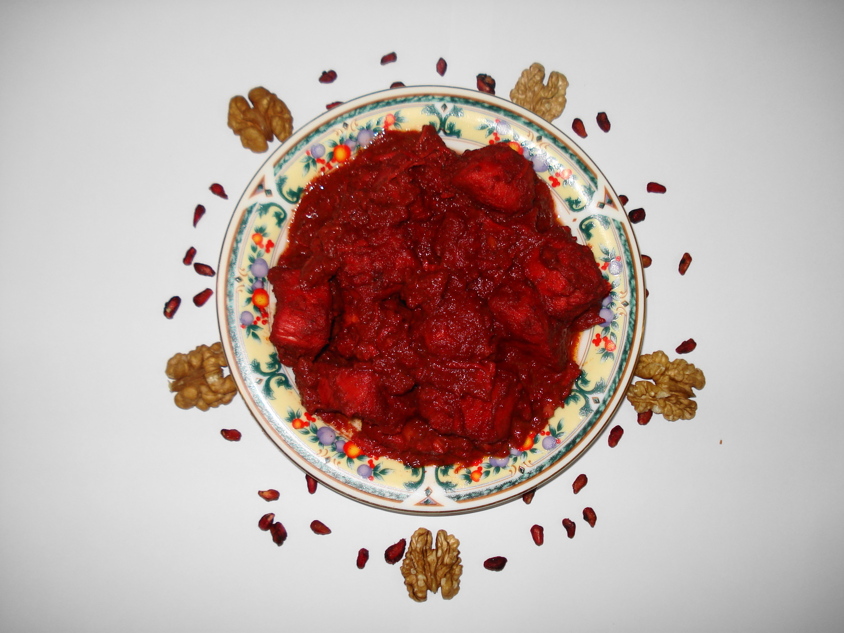 Irani fesenjon